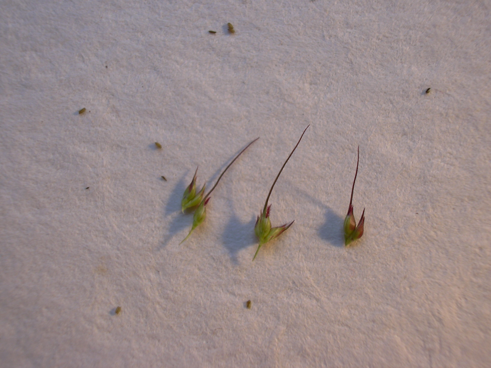 Echinochloa crus-galli (seeds). Location: Maui, Hana Hwy